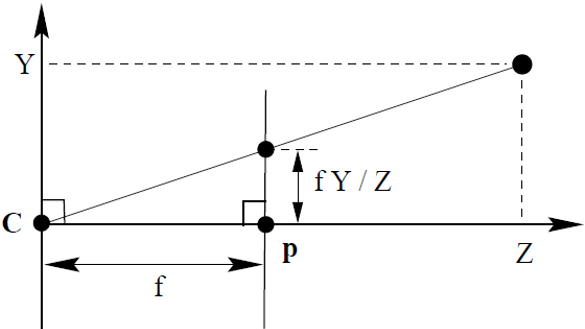 figure 2 for deduction of the fundamental matrix